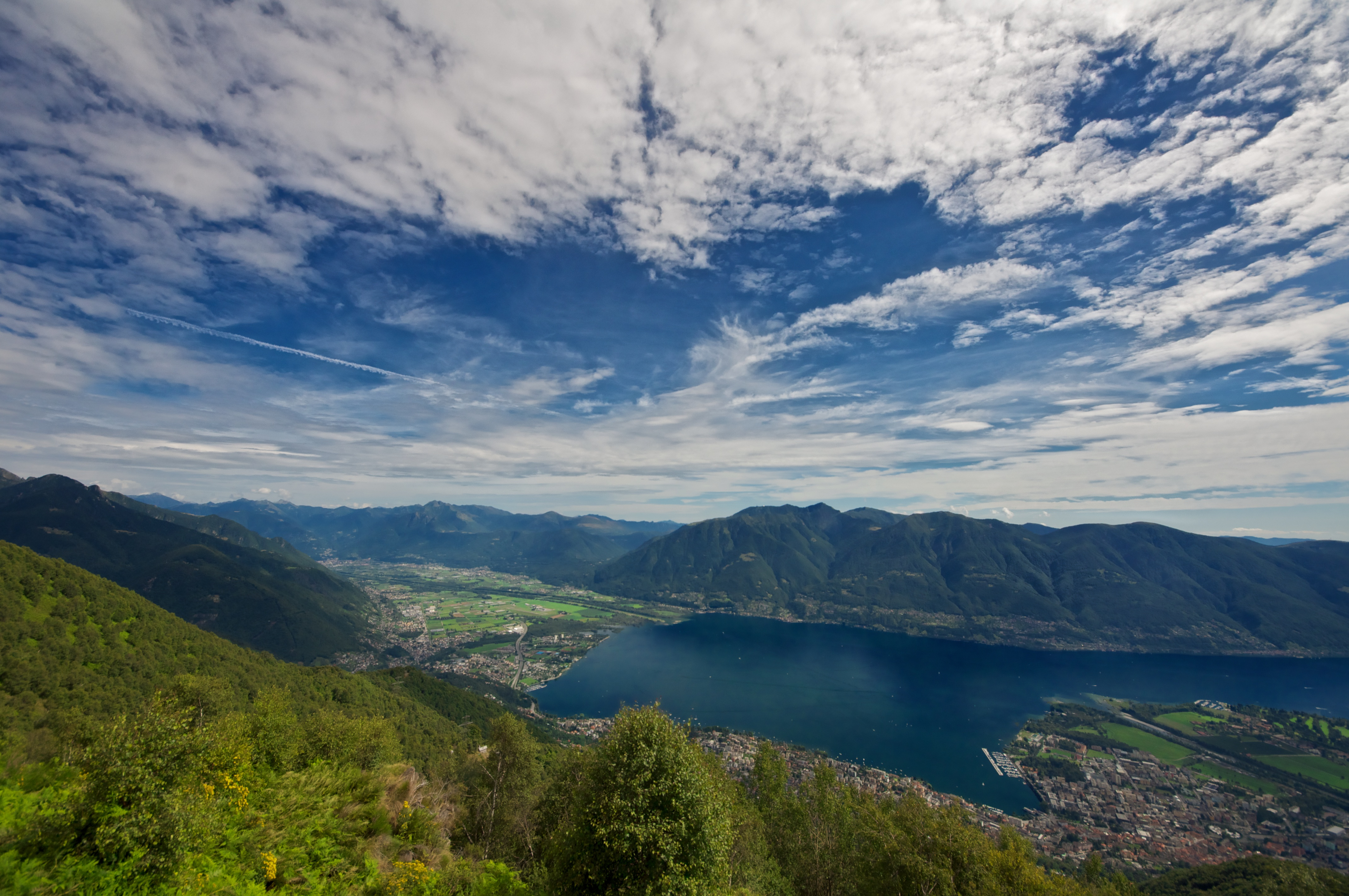 Looking South toward Lake Maggiore in Ticino, Switzerland. Locarno and Ascona are visible on the peninsula. Gambarogno is visible across the lake. Gordola is visible on the left at the end of the lake and Gudo is visible further up the valley.